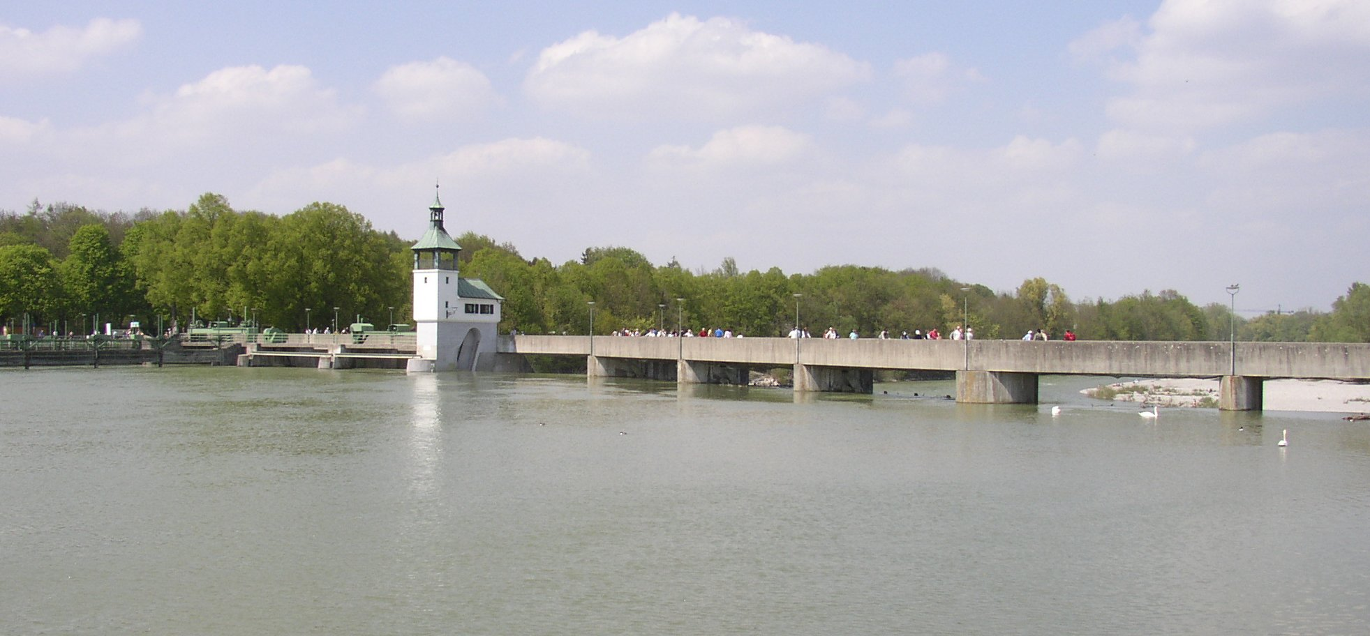 Hochablasswehr (weir) at river Lech in Augsburg, Germany